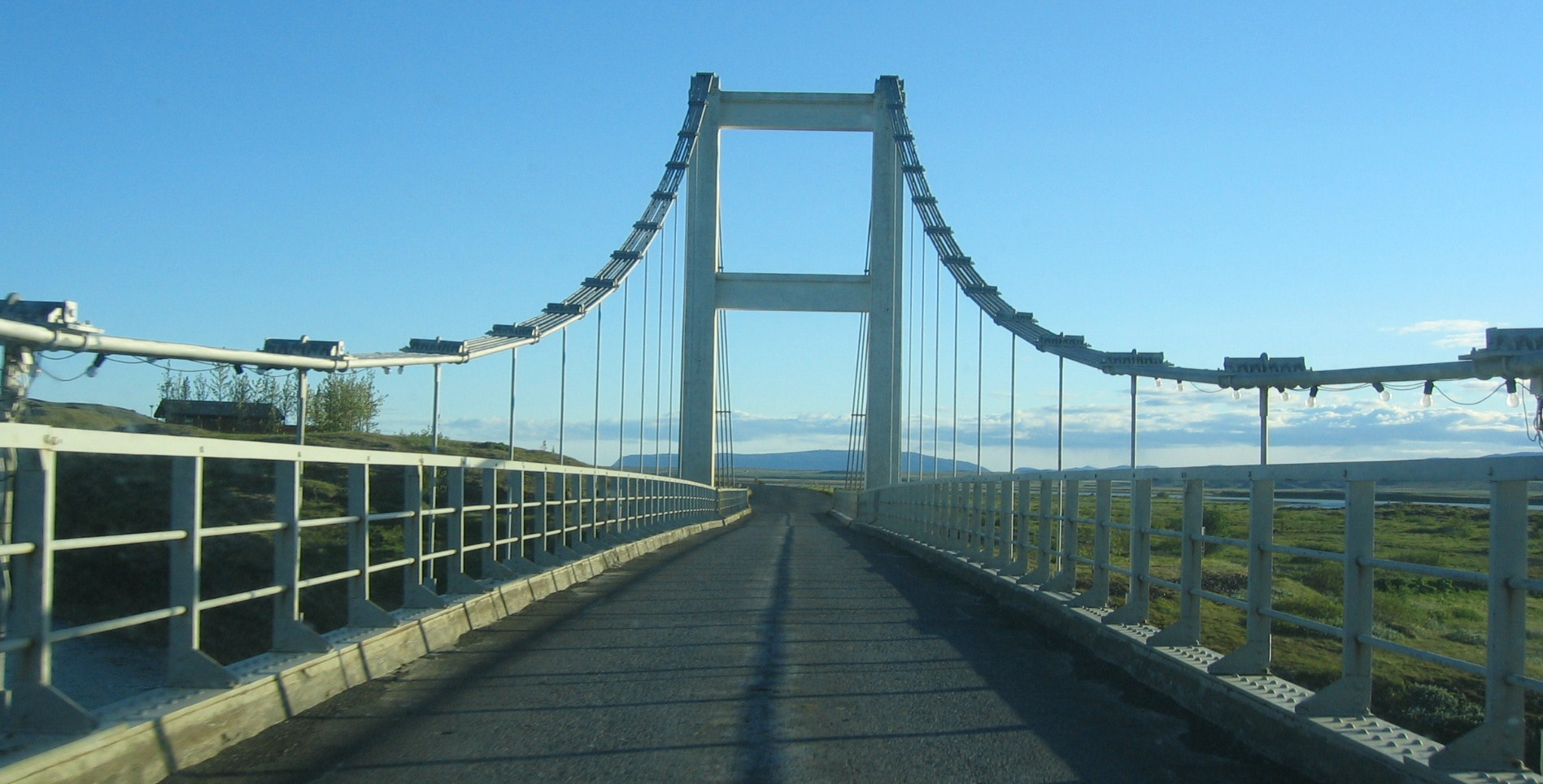 Bridge at Iða.